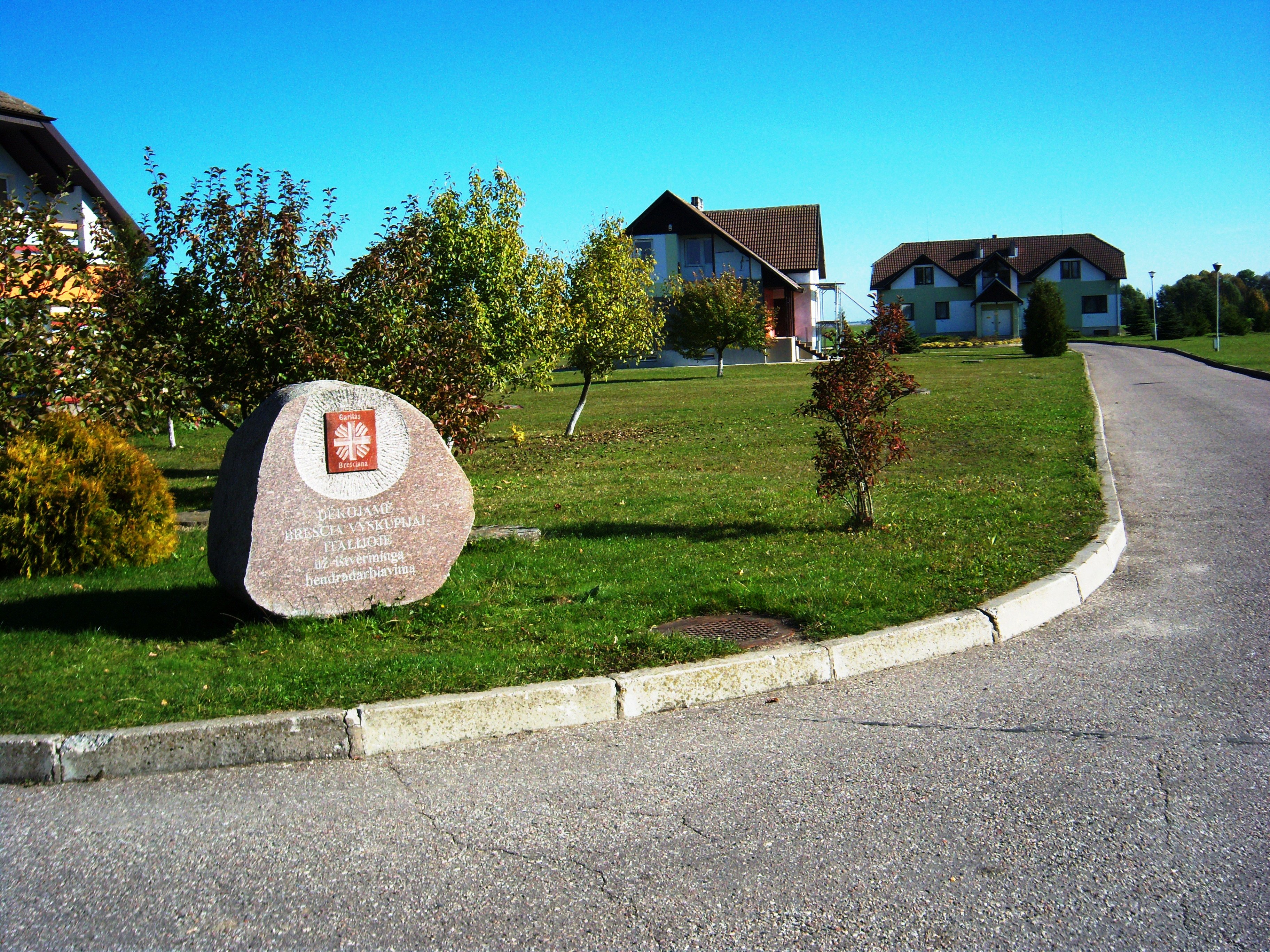 Avikilai, Marijampolė District, Lithuania